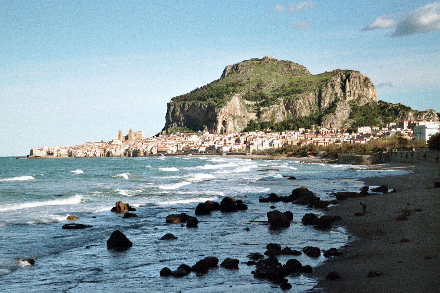 Cefalù, Italy Panoramic view of the city and the rock